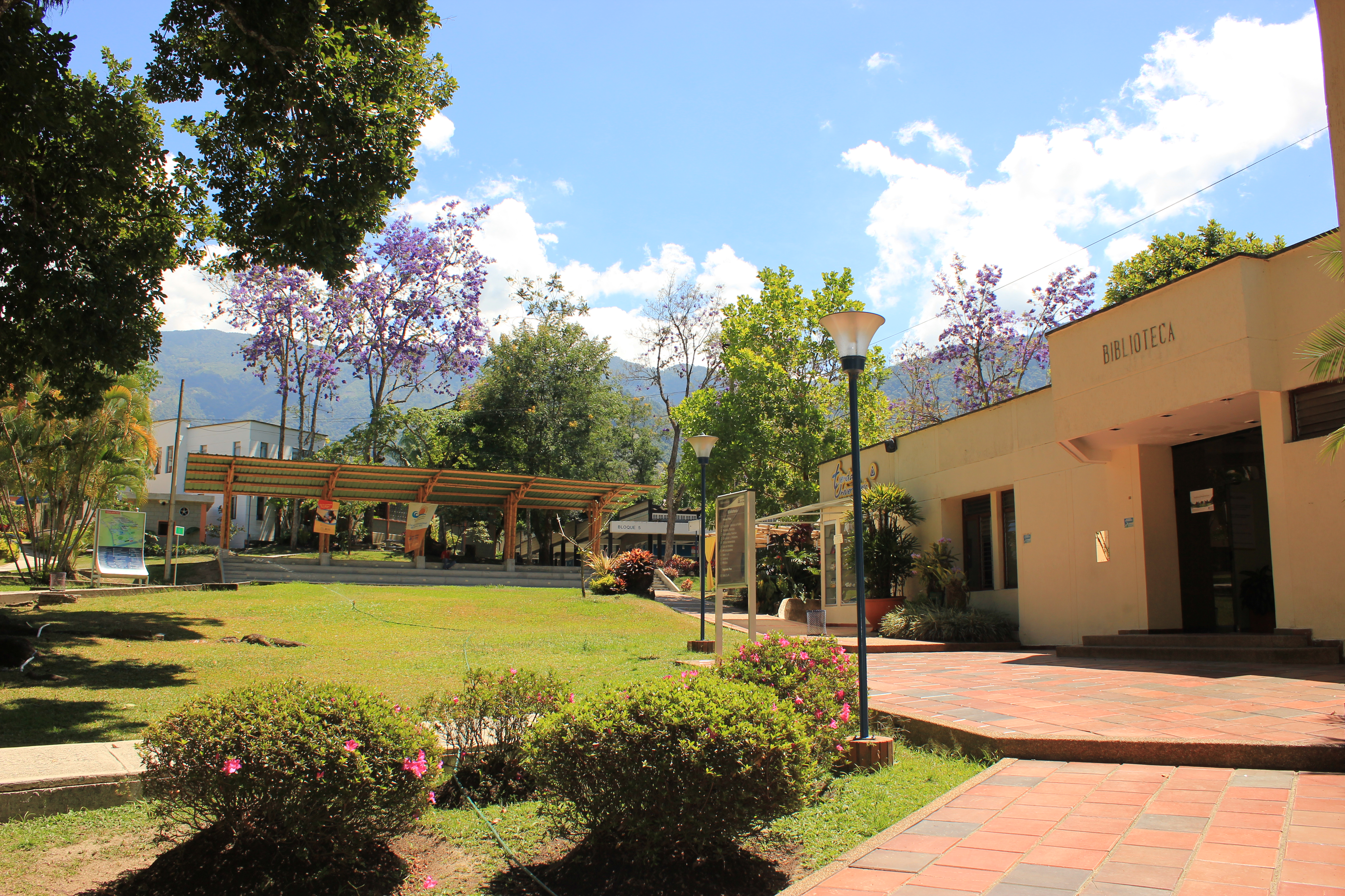 Fachada Biblioteca de la Universidad de Ibagué